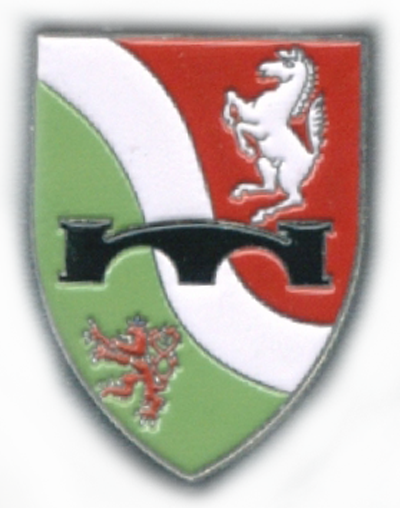 Staff & HQ Company Engineers Brigade 30